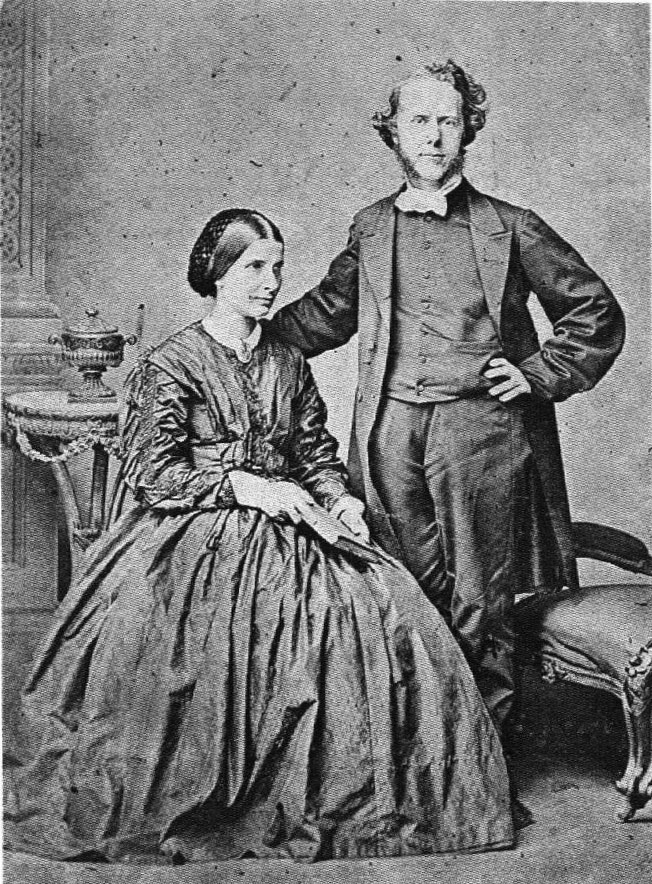 From The Story of The China Inland Mission; Mary Geraldine Guinness; 1893